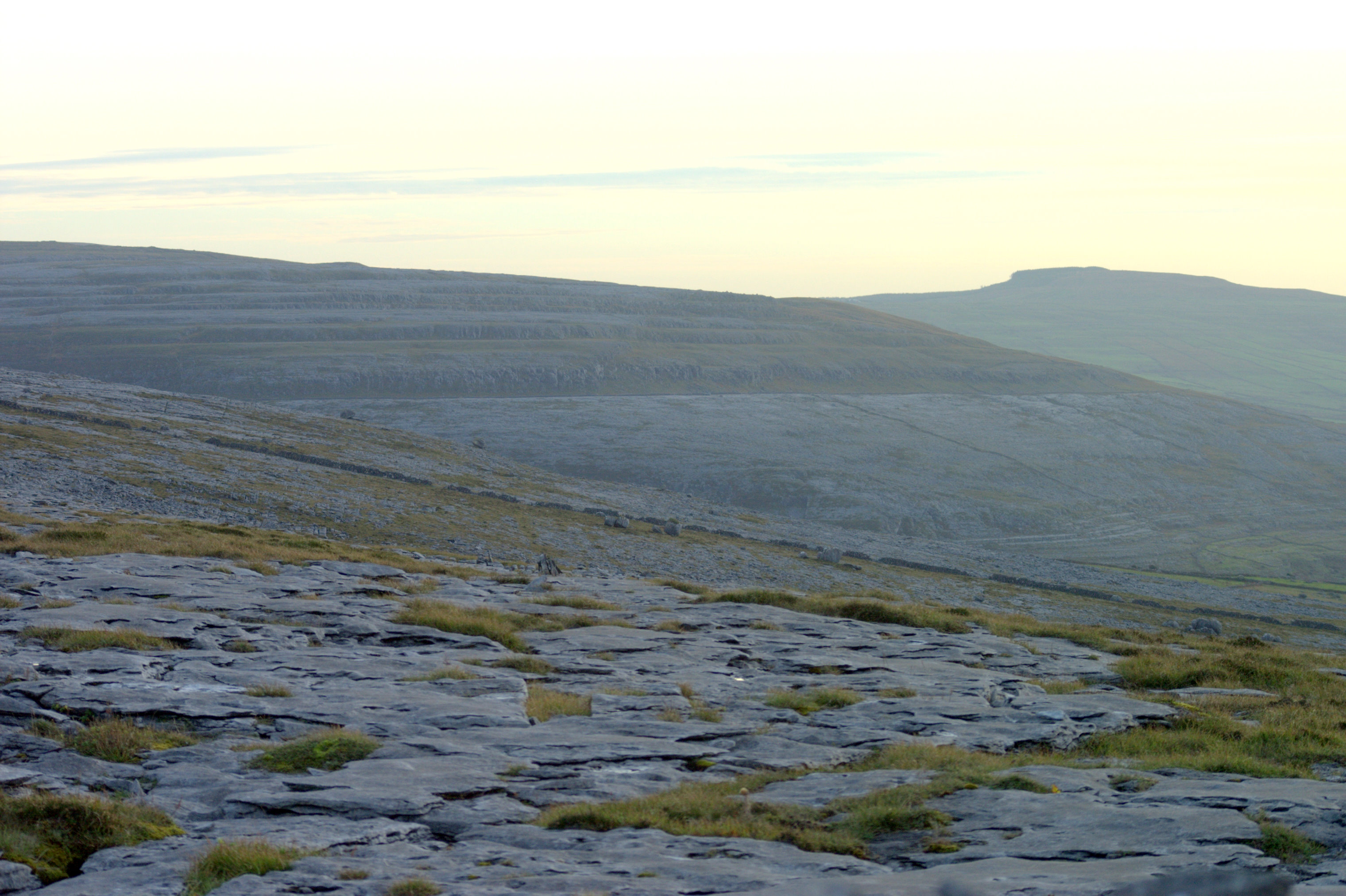 Hilly karst landscape near Black Head on the NW corner of the Burren in County Clare, Ireland. Danny Burke